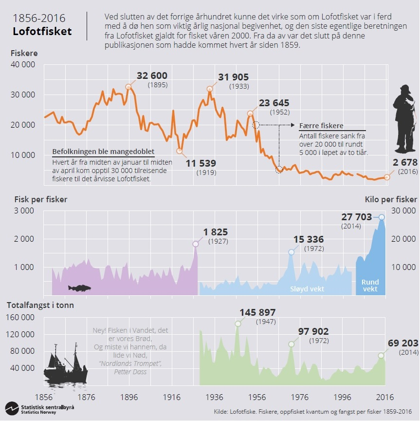 Statistics for the Lofoten winterfisheries (lofotfisket) from statistical data were collected up to modern times.